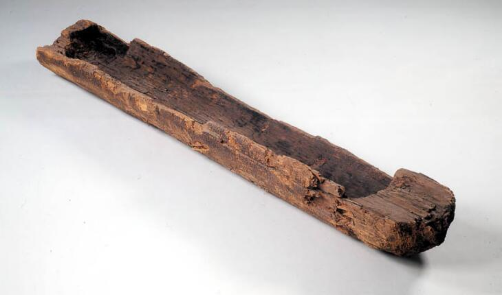 The Pesse canoe is believed to be the world's oldest known boat.